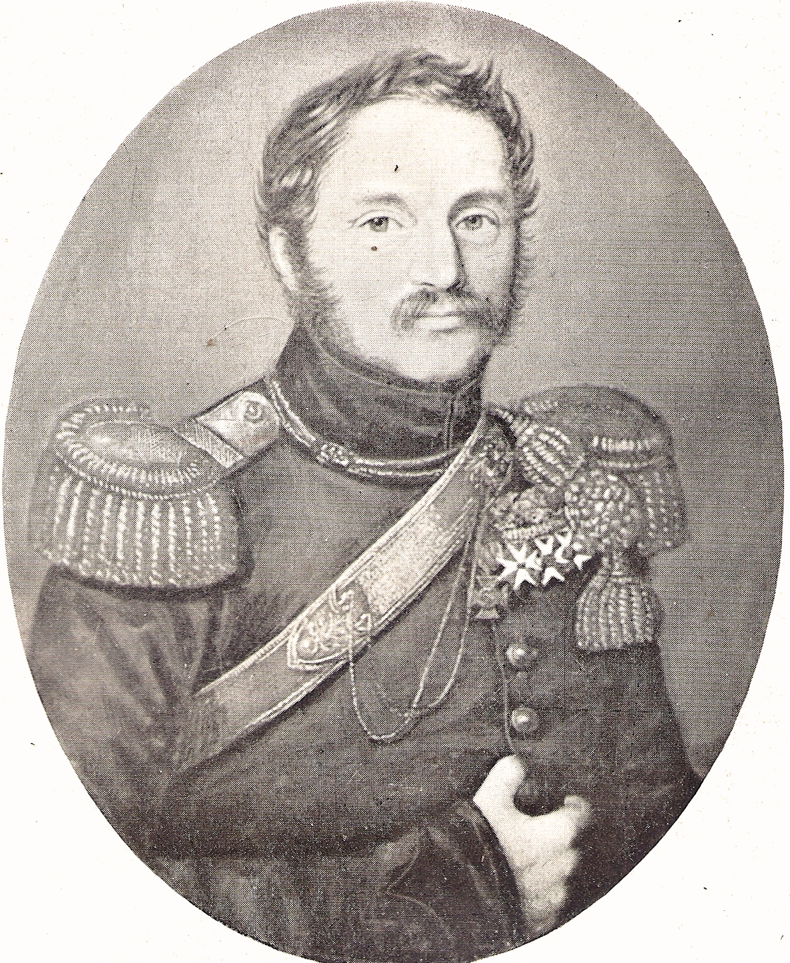 FC List